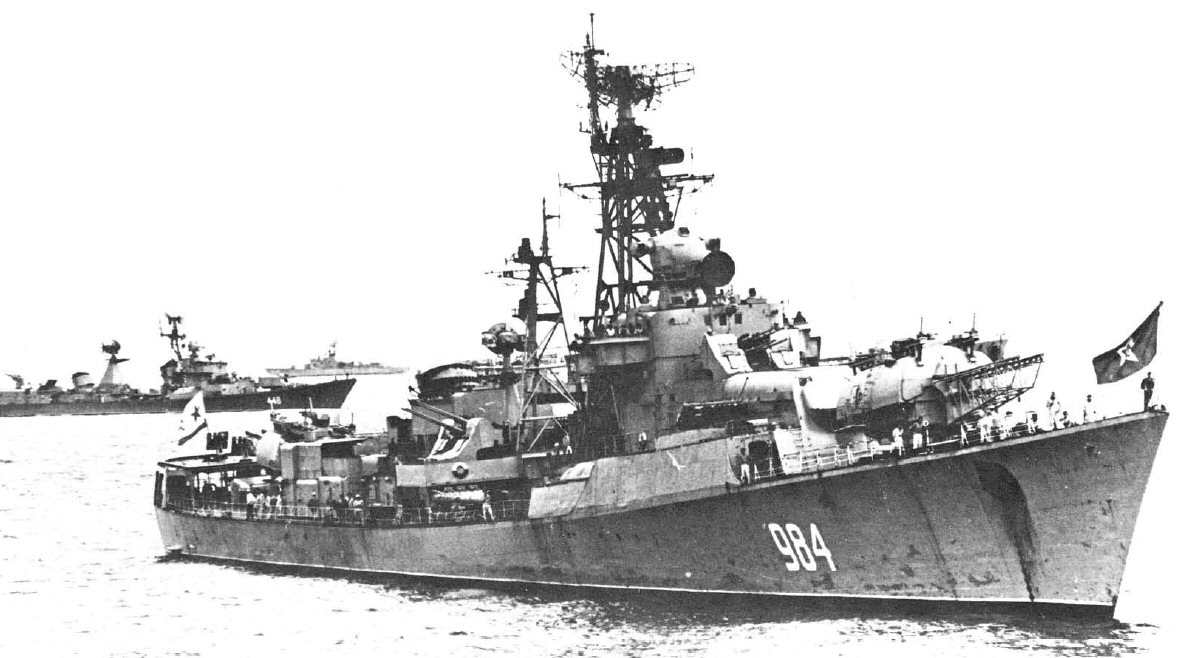 Soviet Project 57bis missile destroyer (NATO Krupny class). In a background Project 56A (Kotlin SAM destroyer) and USS Sample (DE-1048).